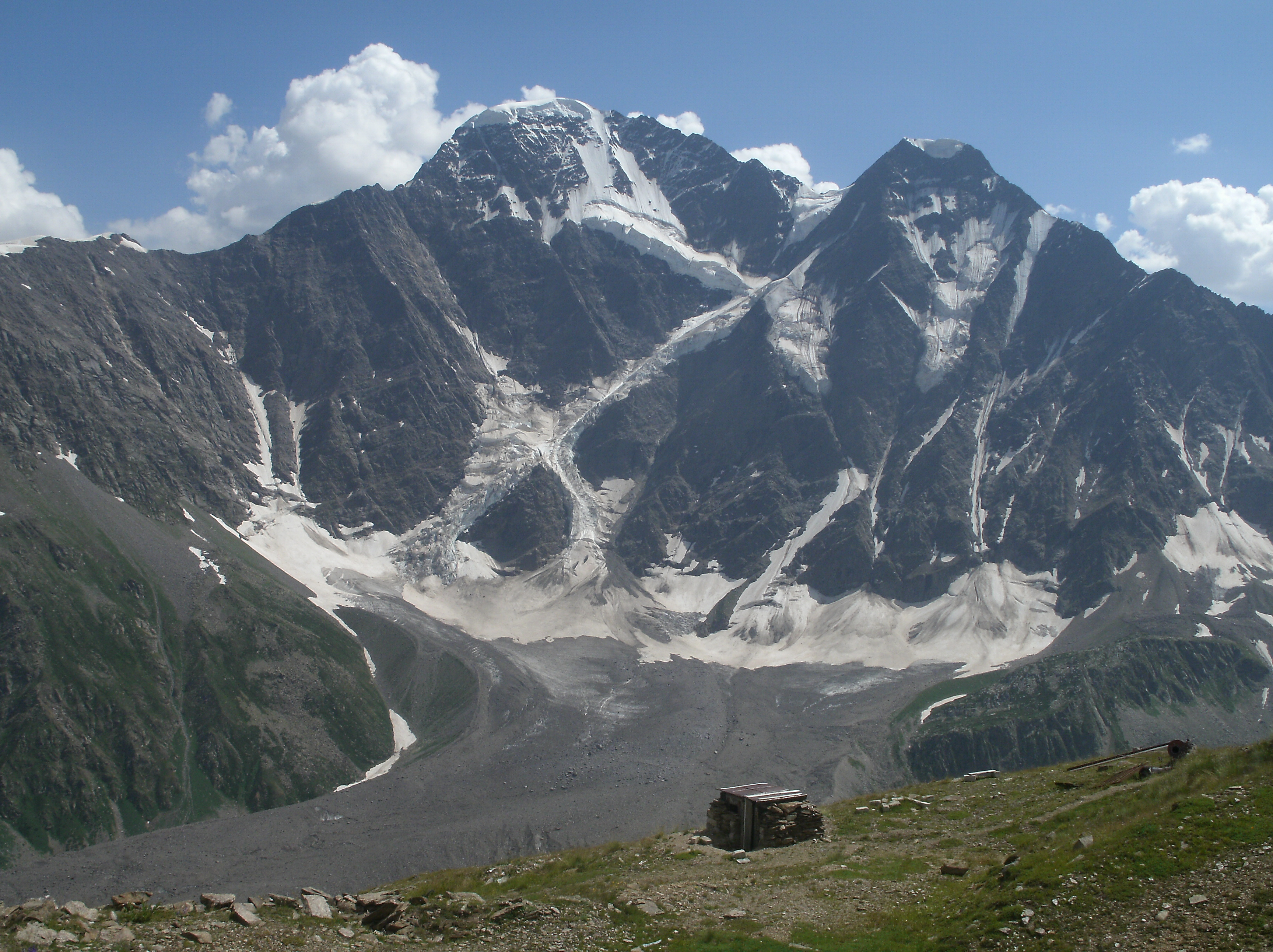 Elbrus region